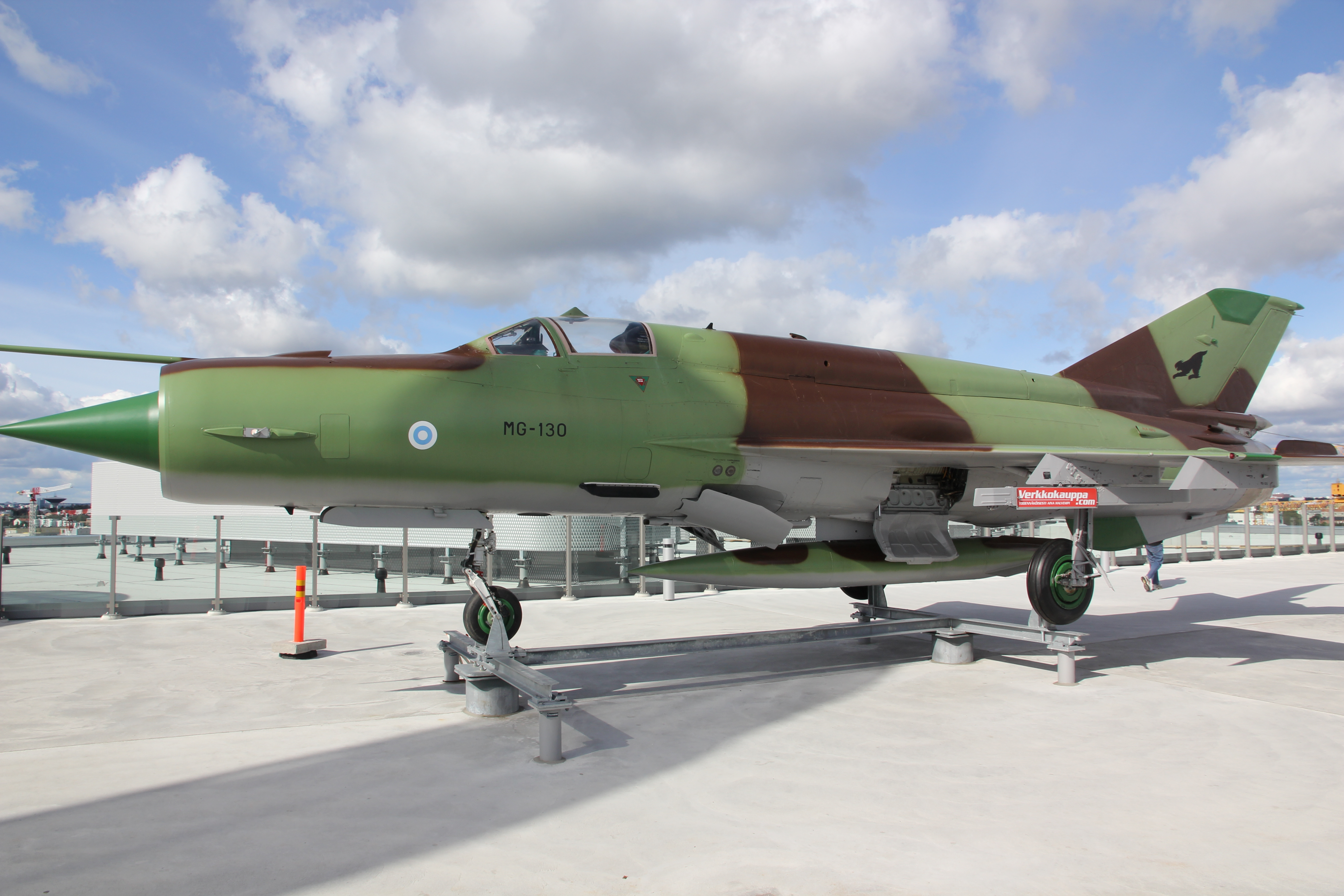 MiG-21bis (MG-130) fighter on display in Verkkokauppa building observation terace in Jätkäsaari.